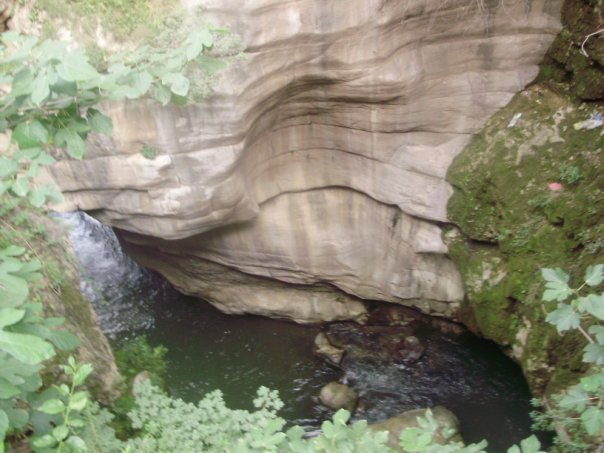 Satani kamurdzh (Devil's bridge). A natural bridge over river Vorotan. Location: Syunik province, Republic of Armenia.